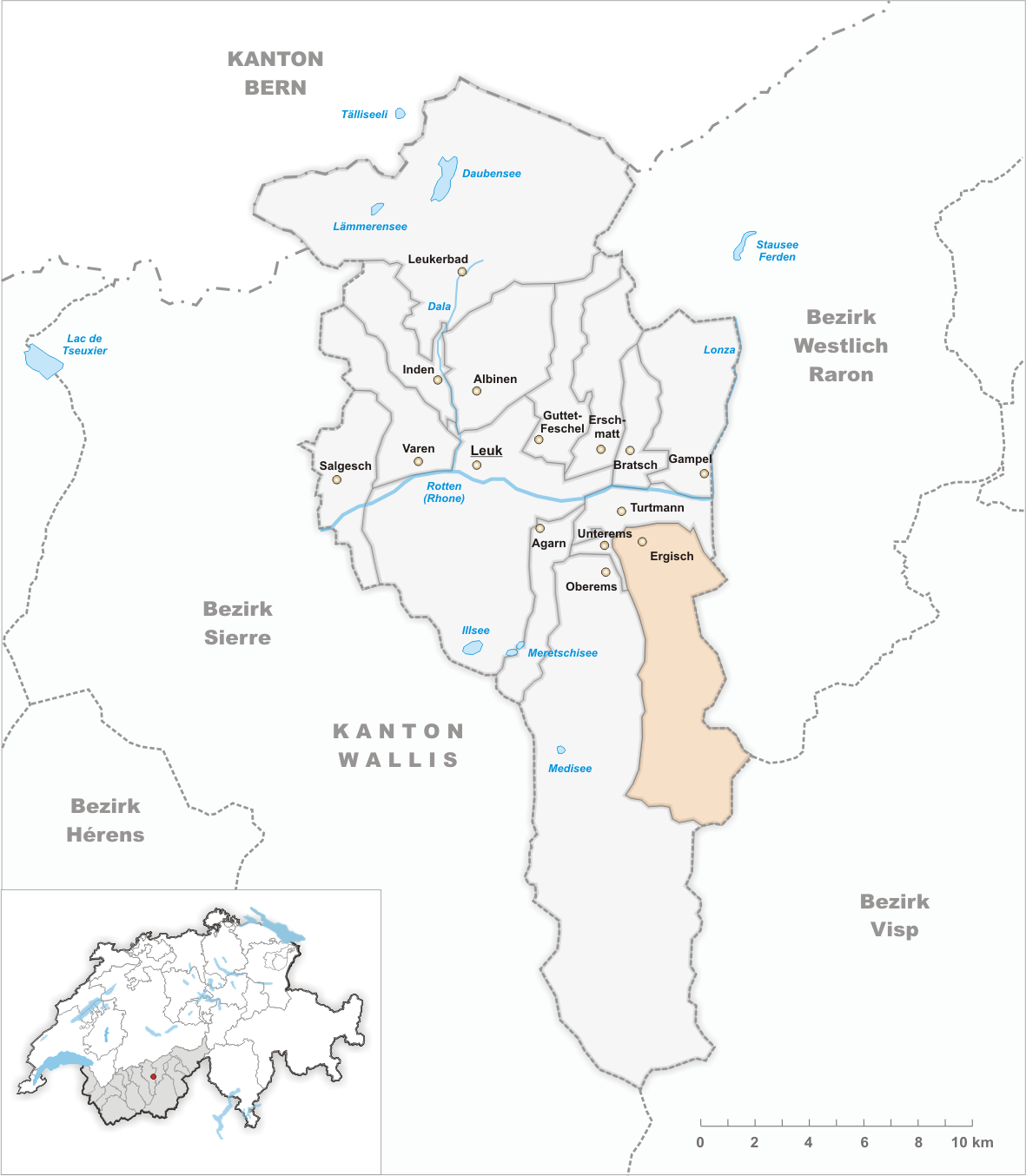 Municipality Ergisch